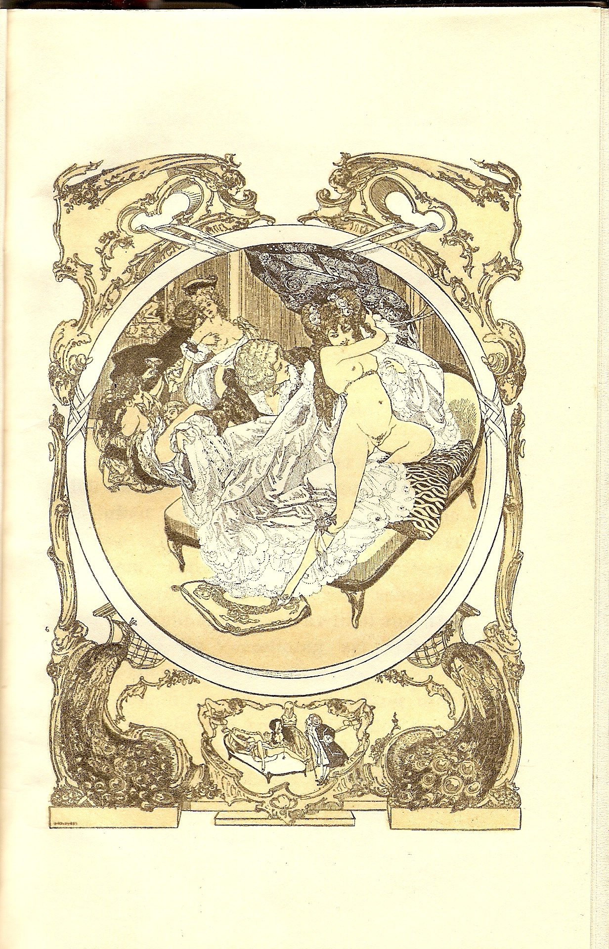 Illustration from: Cleland, John. Memoires de Fanny Hill.